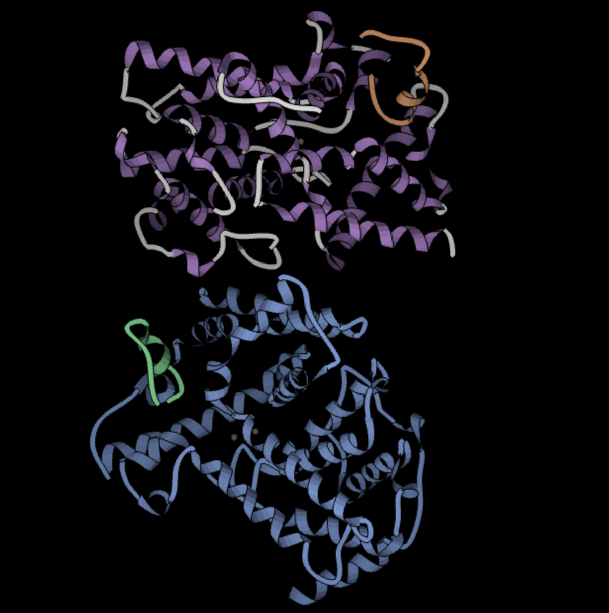 Here is a ribbon model of PDE6 with the highlighted regions indicating the gamma subunits.